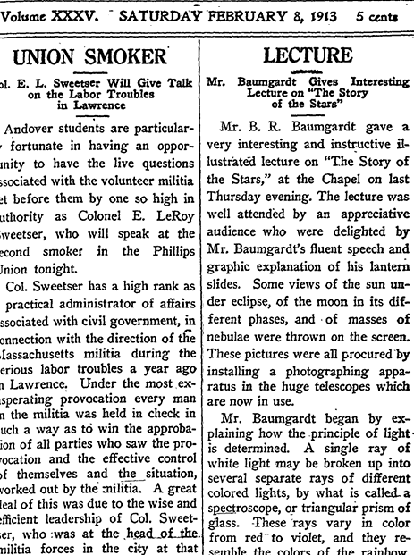 A section of the front page of Andover's student newspaper in 1913. Back then, each paper cost five cents. Year is correct; month and day are approximate.